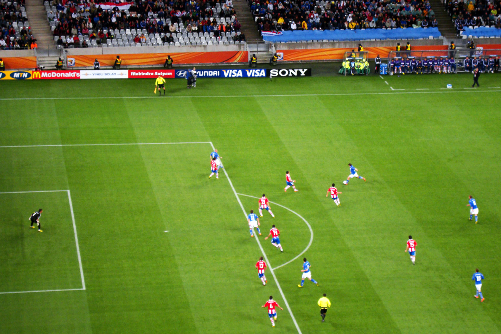 Italy vs Paraguay 2010 FIFA World Cup